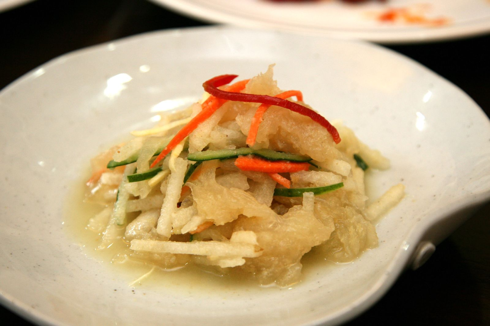 Korean cuisine at a restaurant in South Korea in February 2009.